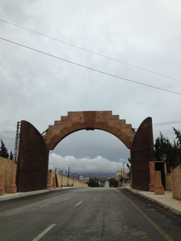 Shmustar, Lebanon gate